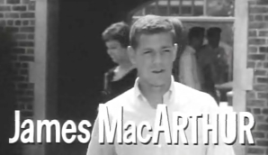 Screenshot of James MacArthur from the trailer for the film The Young Stranger.